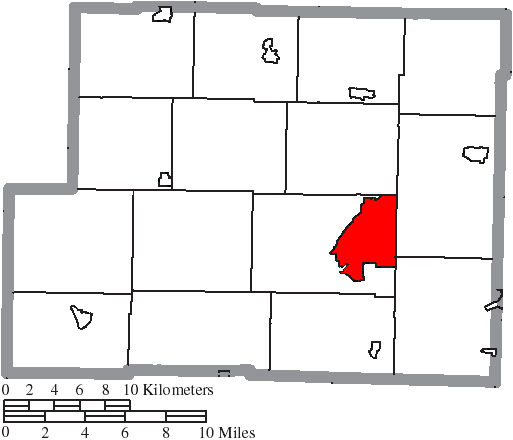 Map of the municipal and township boundaries of Harrison County, Ohio, United States, as of the 2000 census, with the location of the village of Cadiz highlighted. Township borders are shown only in unincorporated areas in order to differentiate incorporated and unincorporated areas more clearly.